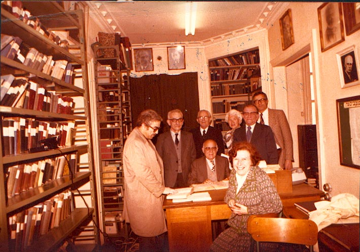 The Comitee of the Medem Library during the 1970s. Date unknown.